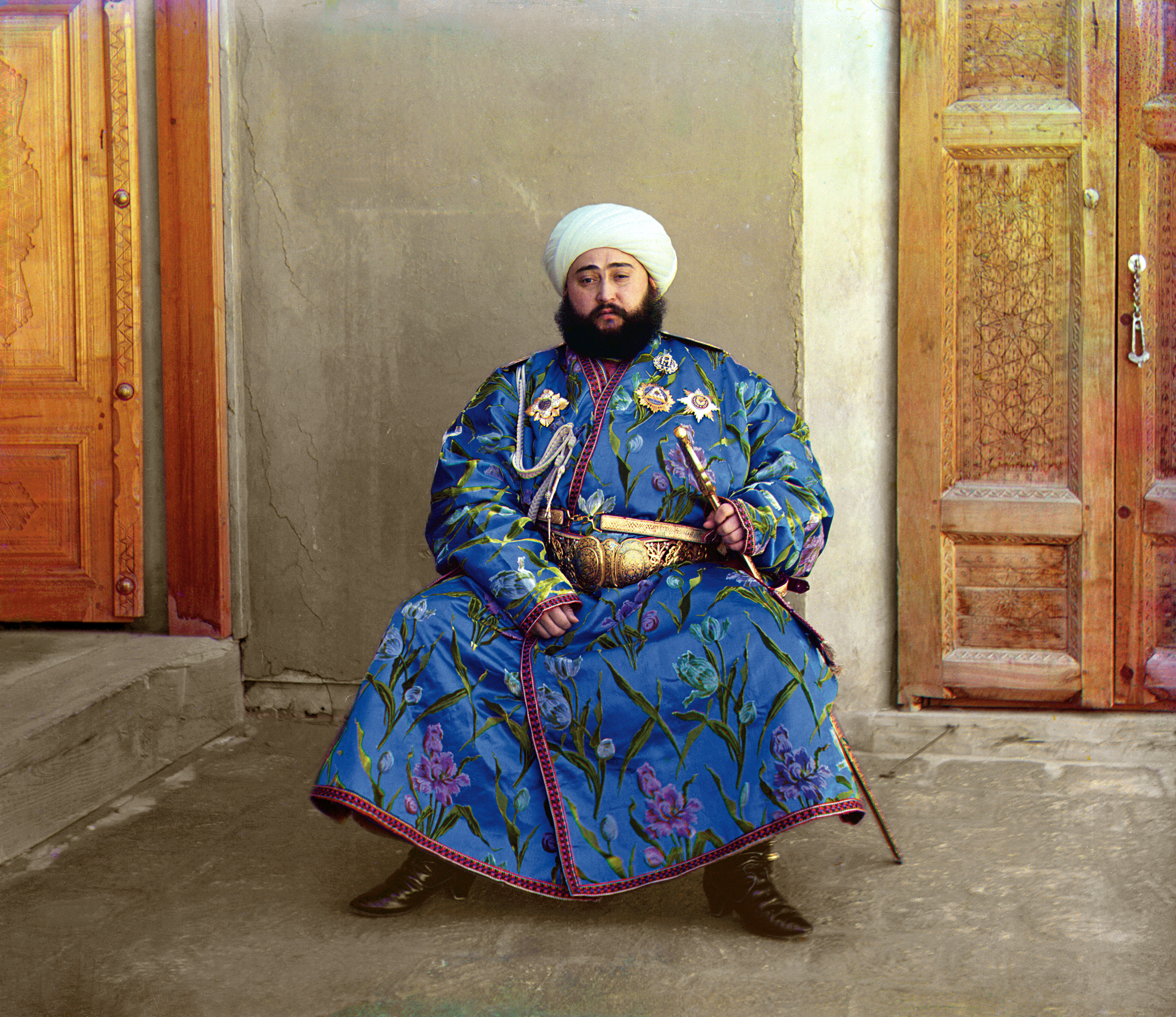 A picture of Alim Khan (1880-1944), Emir of Bukhara, taken in 1911. This is one of the earliest color photographs in existence and was originally taken by Sergei Mikhailovich Prokudin-Gorskii as part of his work to document the Russian Empire. It was taken using three black-and-white exposures, with red, yellow and blue filters respectively, long before color photographic printing existed. The three resulting images were projected using color filters to create a color projection. More recently, the Library of Congress has scanned Prokudin-Gorskii's work and contracted with other firms to produce high-resolution color images from the black and white scans.